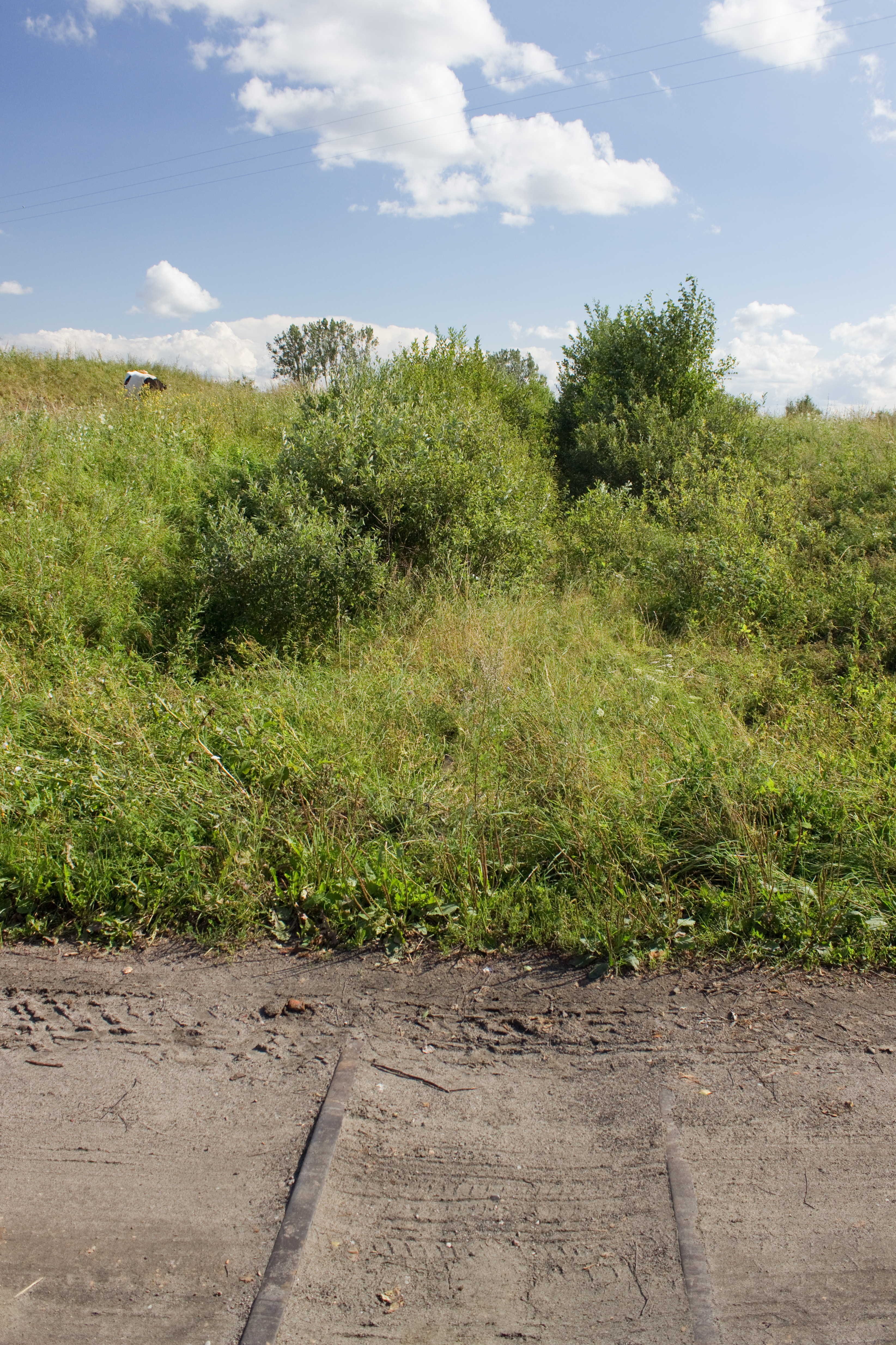 Train stop, Grądzkie Ełckie, gmina Kalinowo, powiat ełcki, Warmian-Masurian Voivodeship